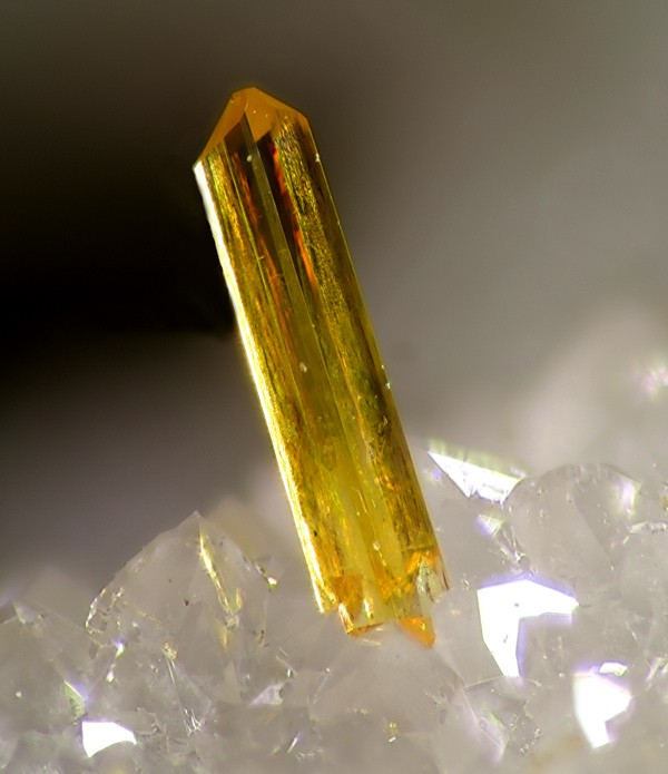 Tellurite Locality: Moctezuma Mine (Bambolla Mine), Moctezuma, Municipio de Moctezuma, Sonora, Mexico (Locality at ) Yellow tellurite on quartz. Picture width 2 mm. Collection and photograph Christian Rewitzer This Photo was Photo of the Day - 2nd Feb 2007